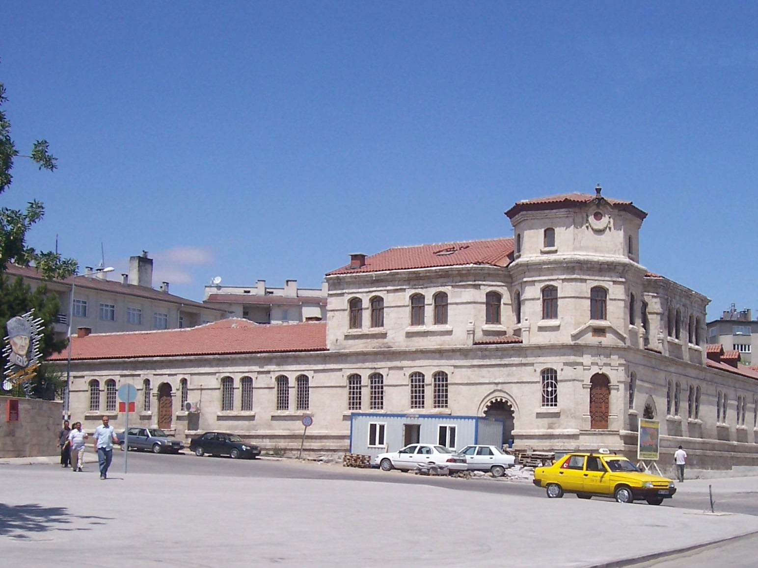 Jandarma Building in Sivas, Turkey